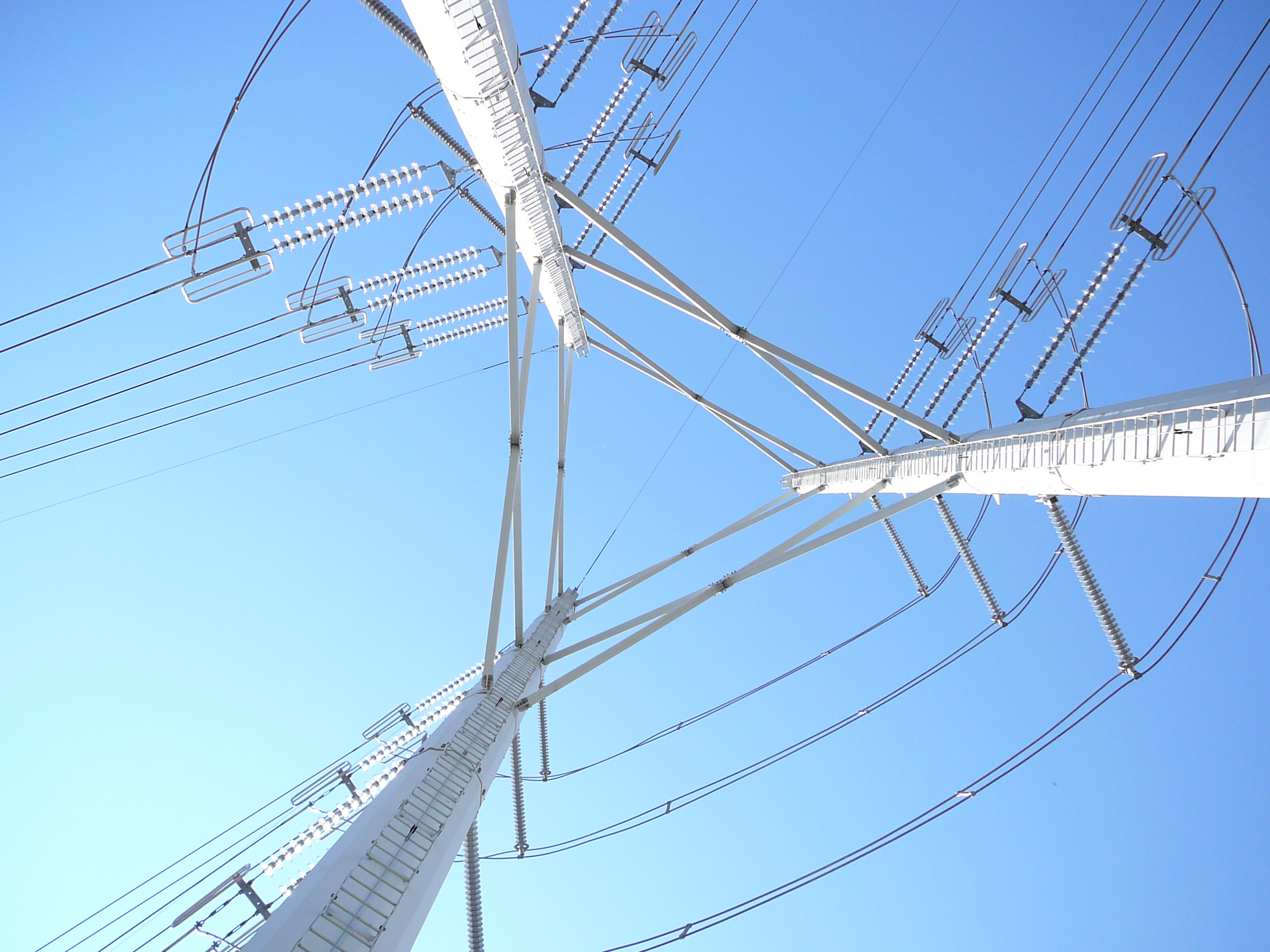 A dead-end pylon of tubular or "muguet" (lily) type of Hydro-Québec TransÉnergie 120 kV power lines in Gatineau, Canada (near Val-Tétreau substation). These pylons are less massive than their regular counterparts and are use in urban settings. They are used for high-voltage lines, from 100 to 315 kV.